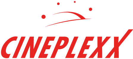 Cineplexx Cinemas logo